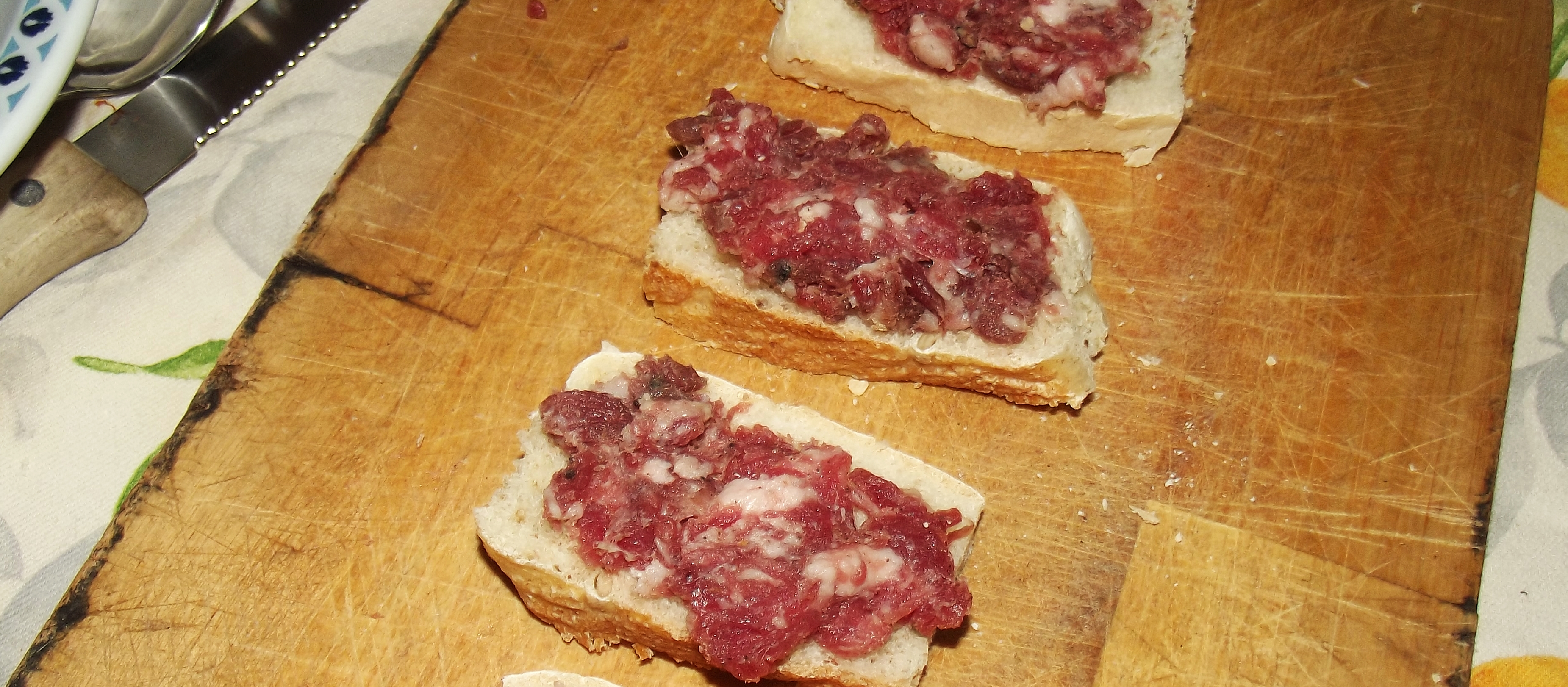 Spread of salema di turgia (traditional old cow salami)